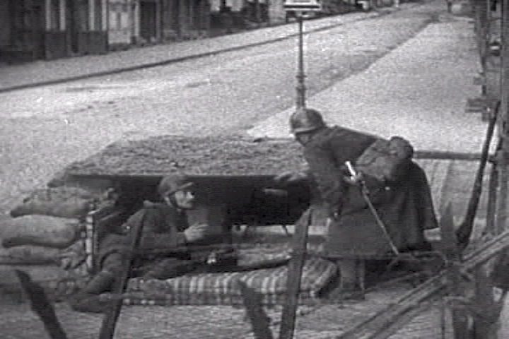 French soldiers setting barricades in Paris in case of an upcoming German Nazi invasion (May 1940). Screenhot taken from the 1943 United States Army propaganda film Divide and Conquer (Why We Fight #3) directed by Frank Capra and partially based on, news archives, animations, restaged scenes and captured propaganda material from both sides.